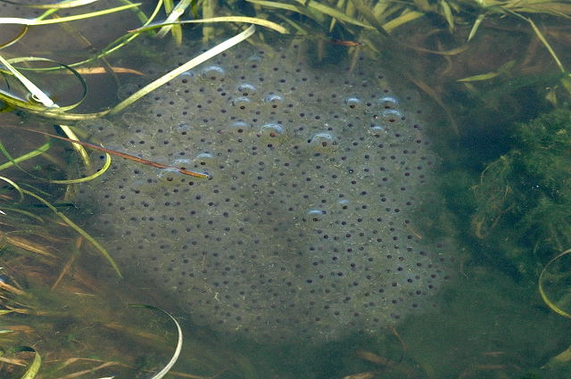 Rana temporaria eggs, from Commanster, Belgian High Ardennes (50°15'20``N,5°59'58``E)